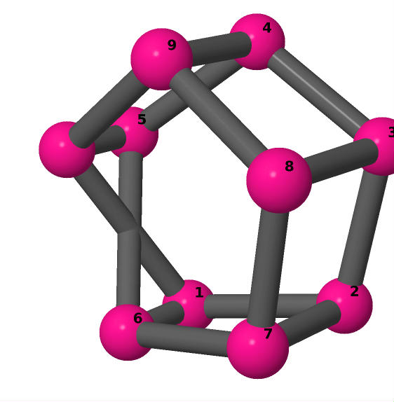 One of 19 simple cubic graphs with 10 vertices.